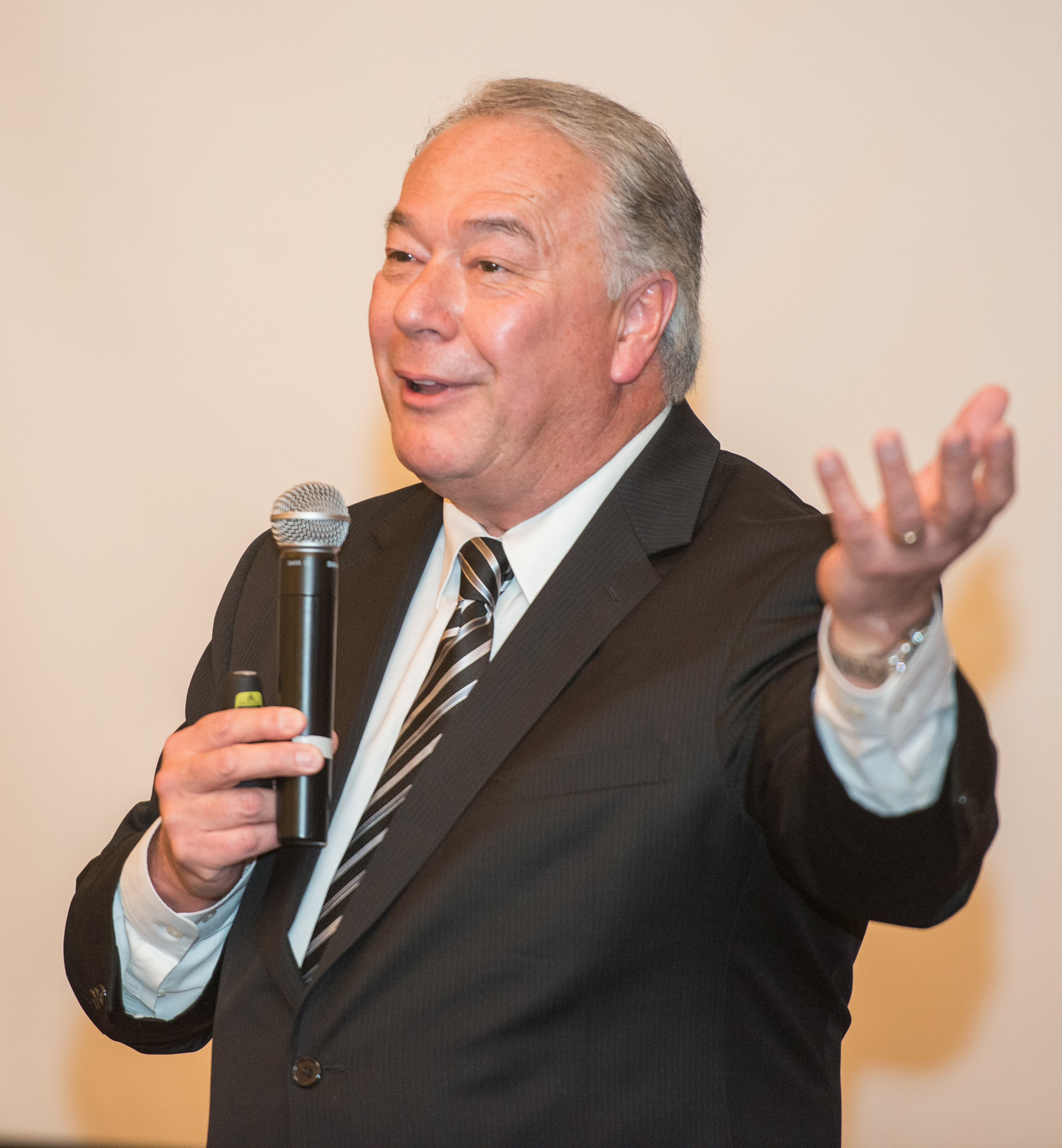 Robert Wittman speaking at Roanoke College, in Salem, Virginia, in 2014